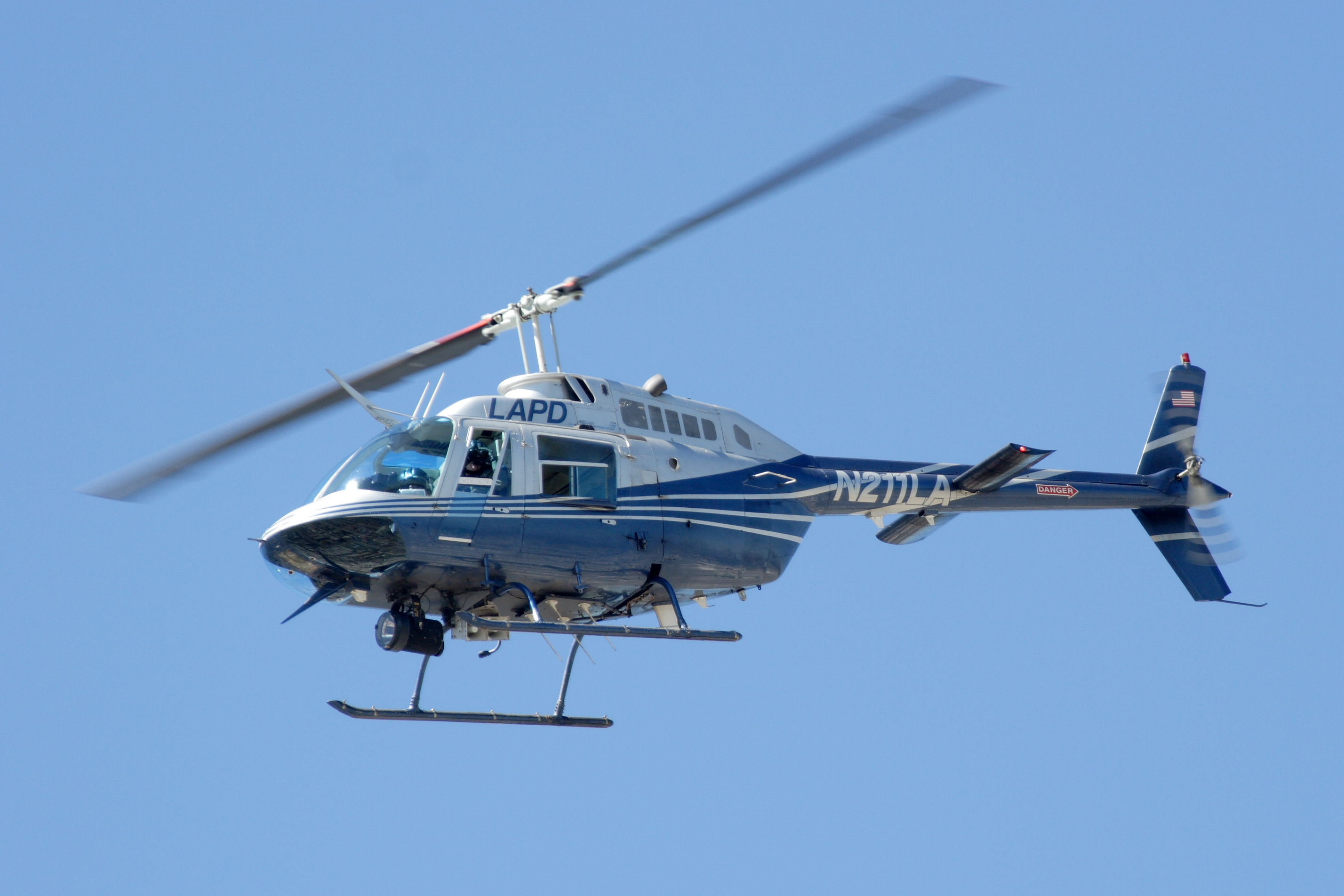 Los Angeles Police Department (LAPD) Bell 206 Jetranger helicopter